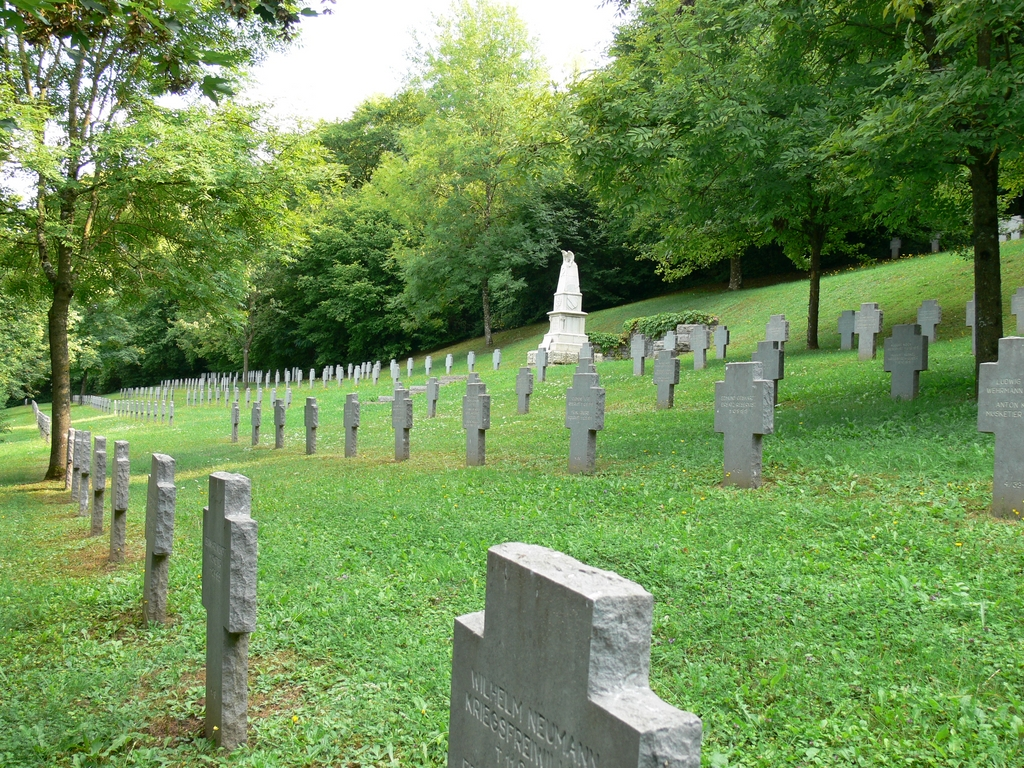 World War I German Cemetery in Bouillonville, Lorraine, France.